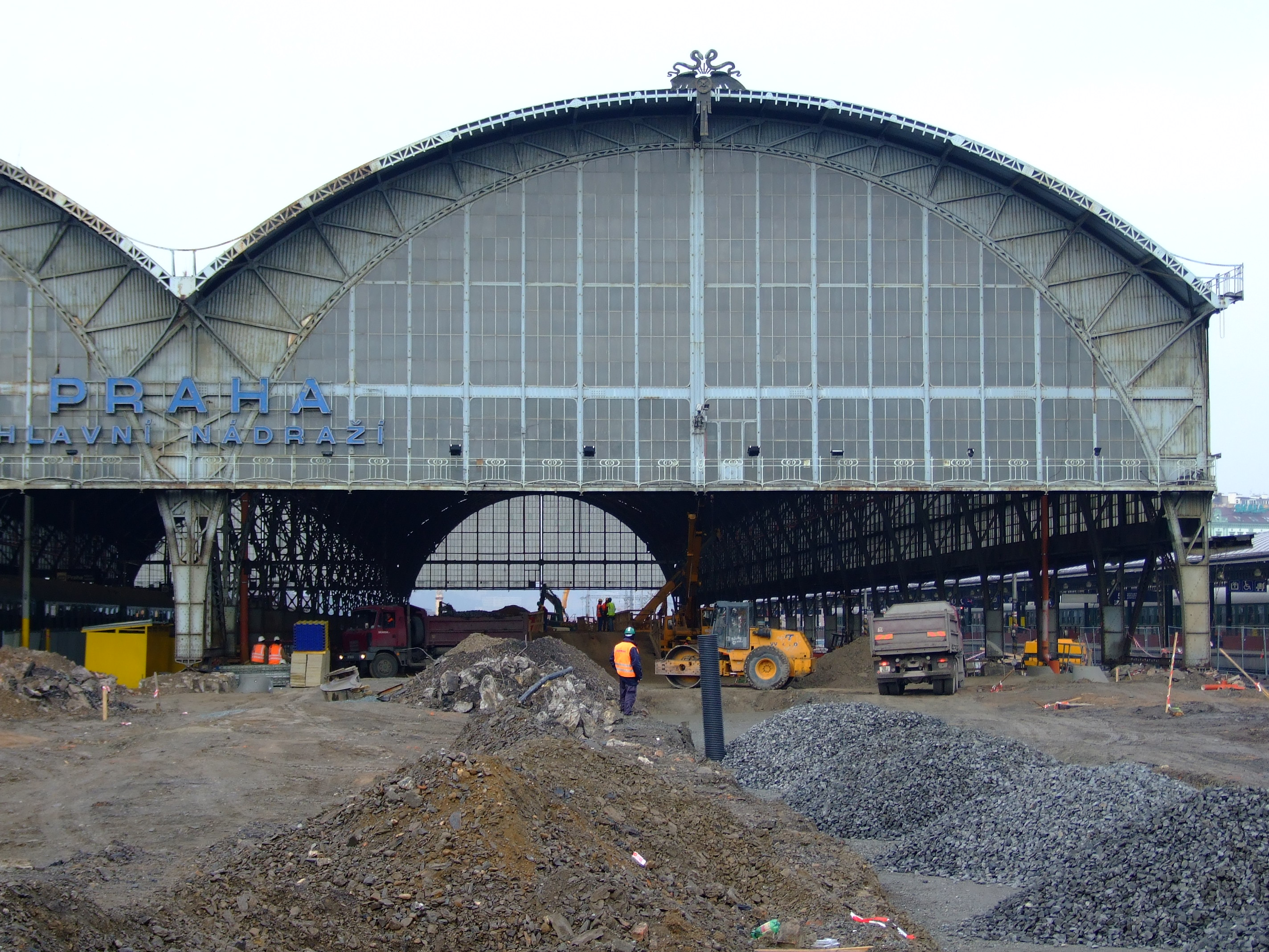 Prague-Hlavní nádraží (main train station) under reconstruction